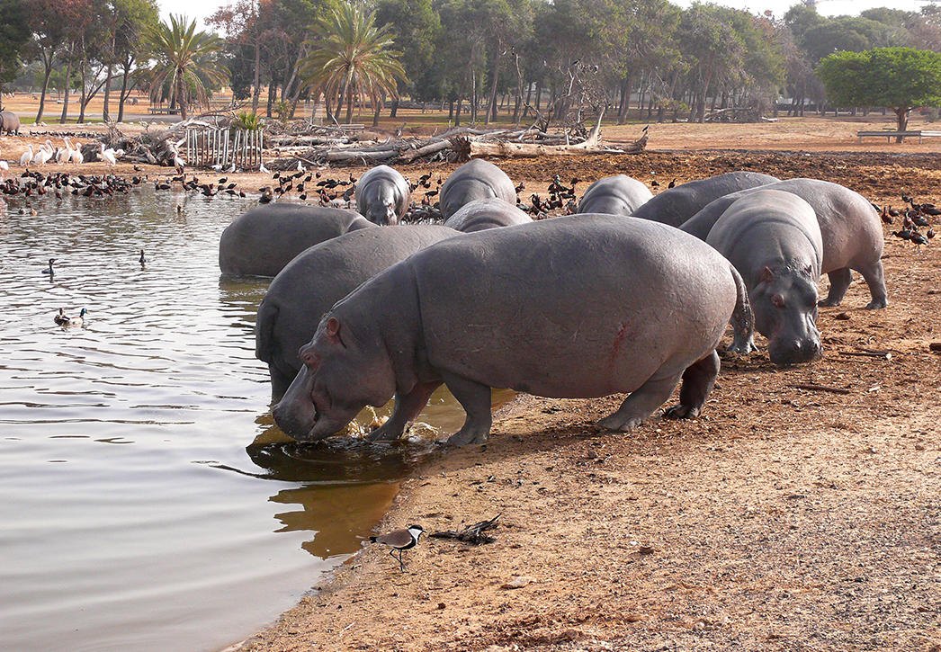 Hippopotamus, Zoological Center Tel Aviv - Ramat Gan, Israel